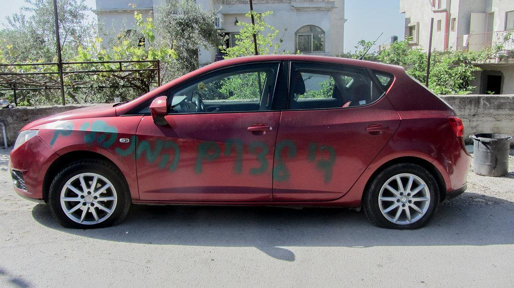 Graffiti the settlers spray-painted on Ribhi a-Tawil’s car in Far’ata. The text reads, in Hebrew: “No more administrative orders.” Photo by Abdulkarim Sadi, B’Tselem, 4 April 2018.